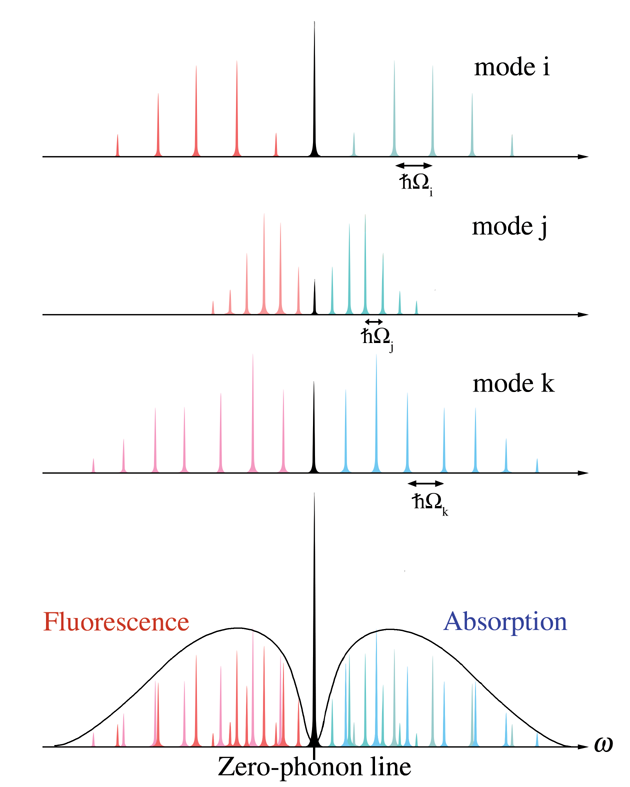 Lattice modes contributing to the zero-phonon line and associated phonon side band. Created by Mark Somoza based on figures in: J. Friedrich and D. Haarer (1984). “Photochemical Hole Burning: A Spectroscopic Study of Relaxation Processes in Polymers and Glasses”. Angewandte Chemie International Edition in English 23, 113-140.